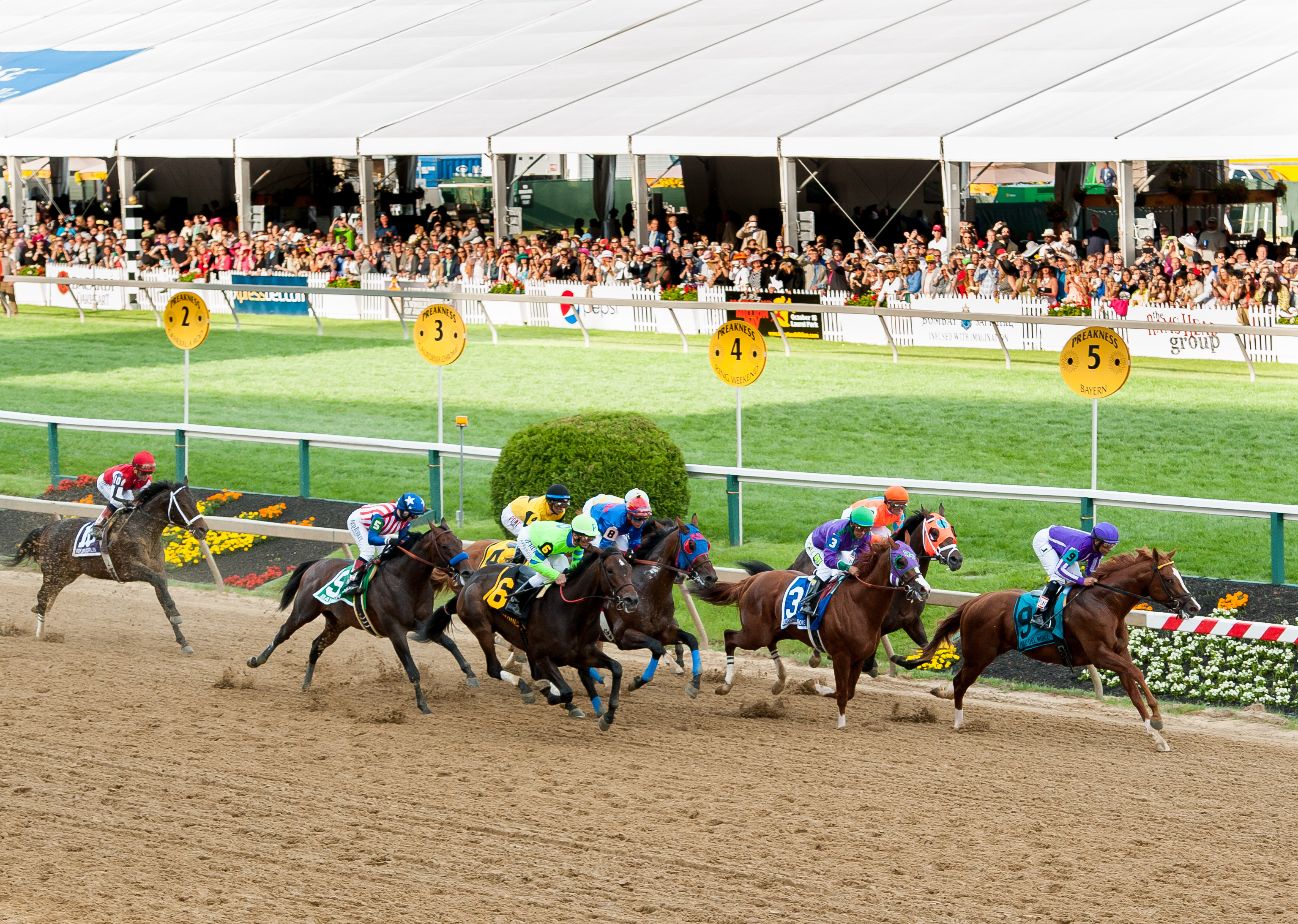 First time past the stands at 139th Preakness Stakes. by Jay Baker at Baltimore, MD.